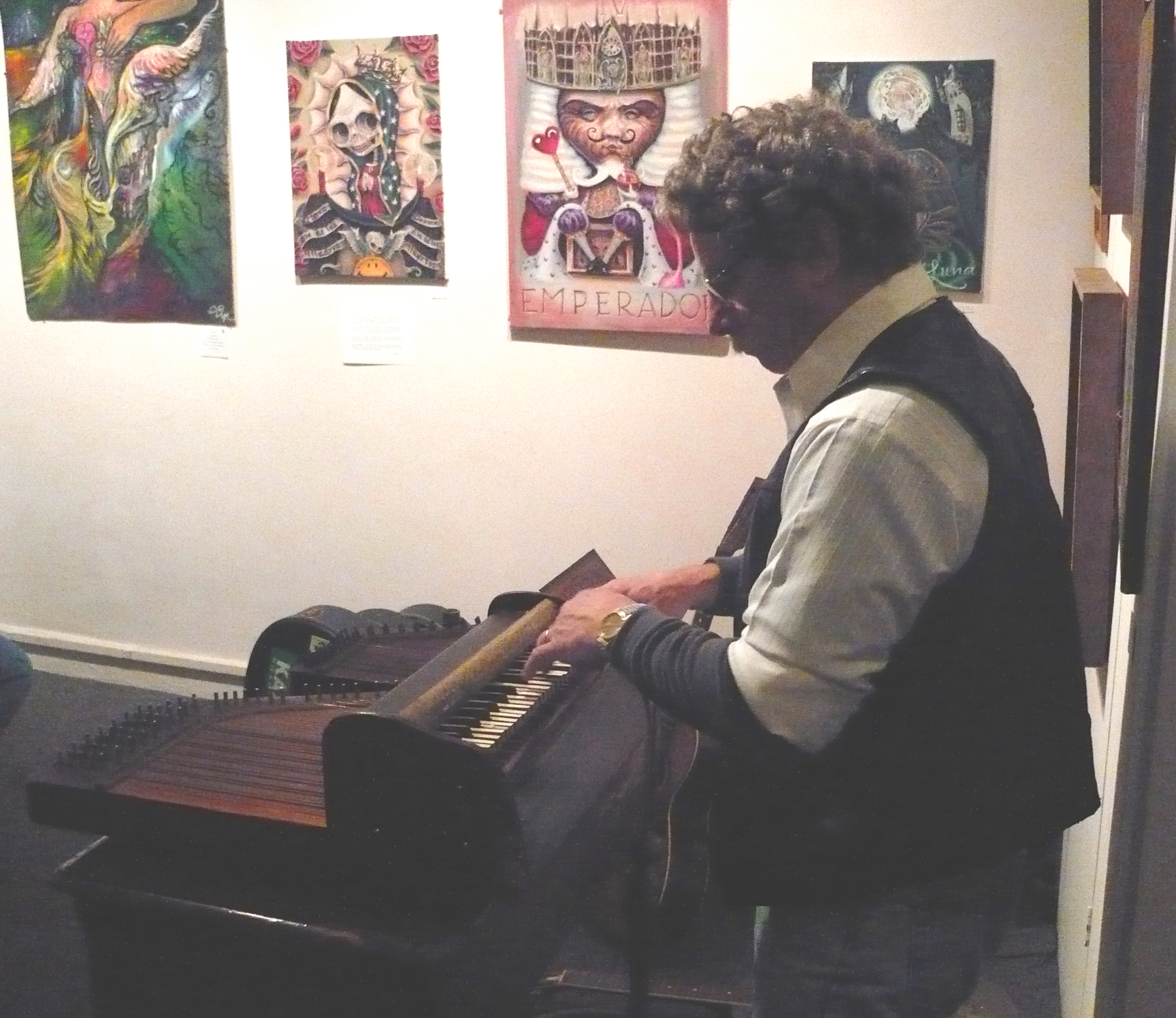 Andy Cohen playing a Dolceola. Photo taken at the North Water Street Gallery in Kent, Ohio, United States, at a concert given by Cohen for the Folk Alley 'Round Town night of the 42nd Kent State Folk Festival.